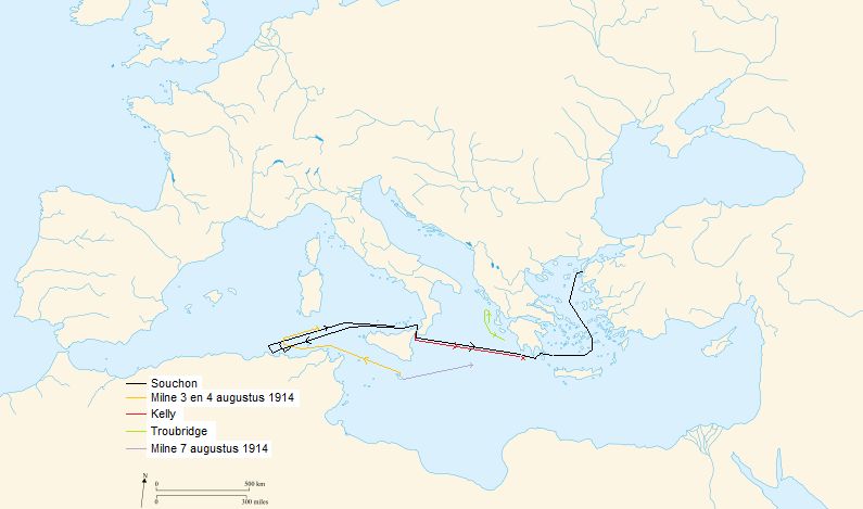 Map showing approximate course of German and British forces during the pursuit of the German vessels SMS Goeben and SMS Breslau in August 1914, see Pursuit of Goeben and Breslau. Used on Achtervolging van SMS Goeben en SMS Breslau. Based on Image:Blank map of South Europe and North Africa.svg. With thanks to user Lupo for helping me find this map.